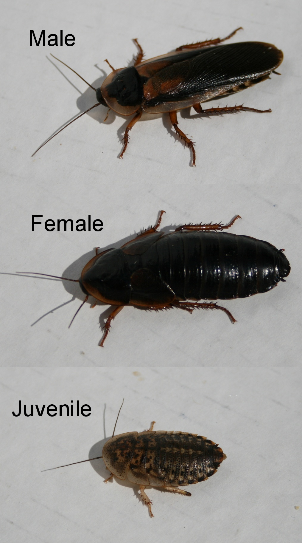 A mosaic of 3 images showing an adult male, adult female, and juvenile Blaptica Dubia cockroaches